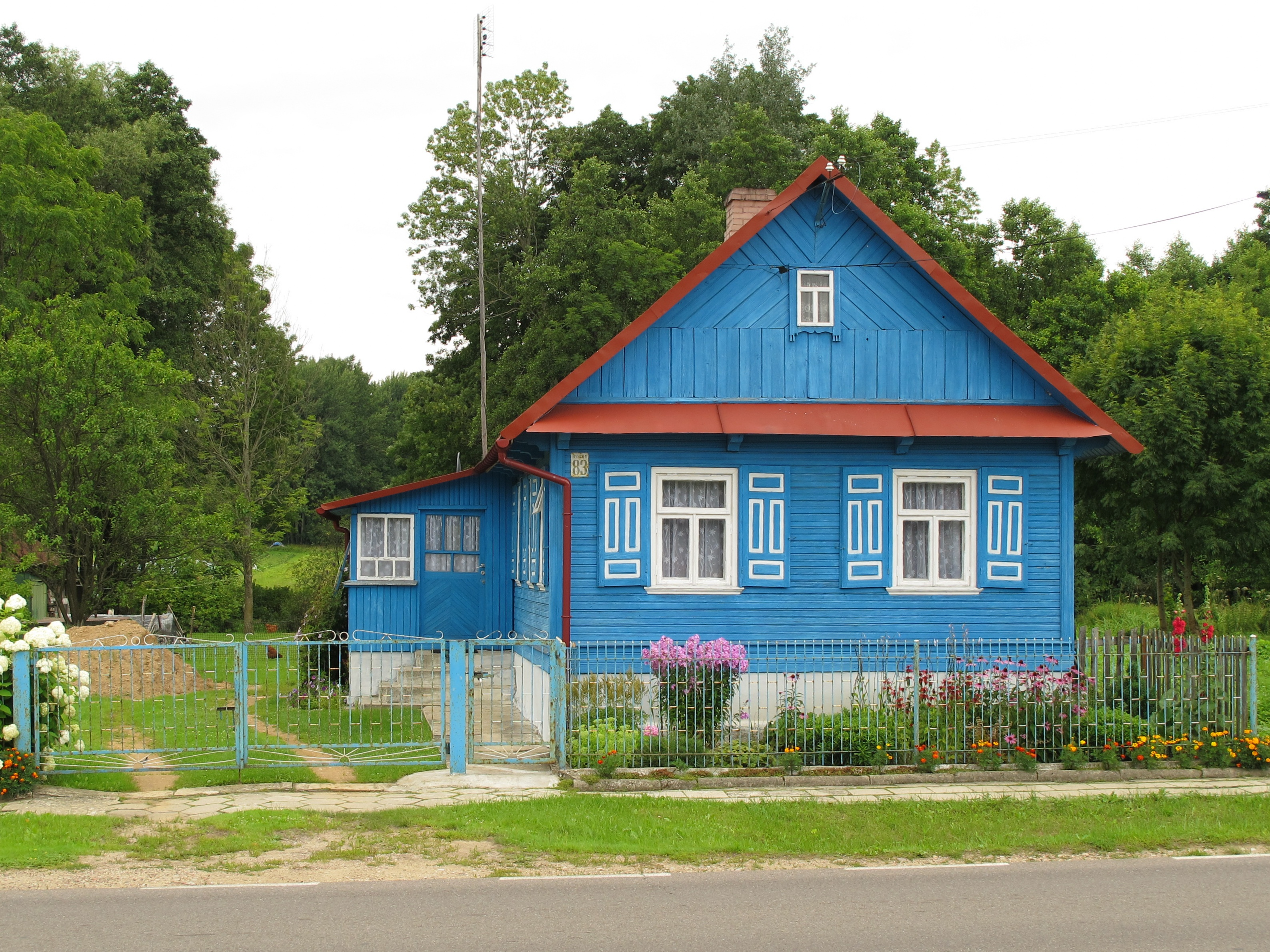 House in the Ryboły village, gmina Zabłudów, podlaskie, Poland